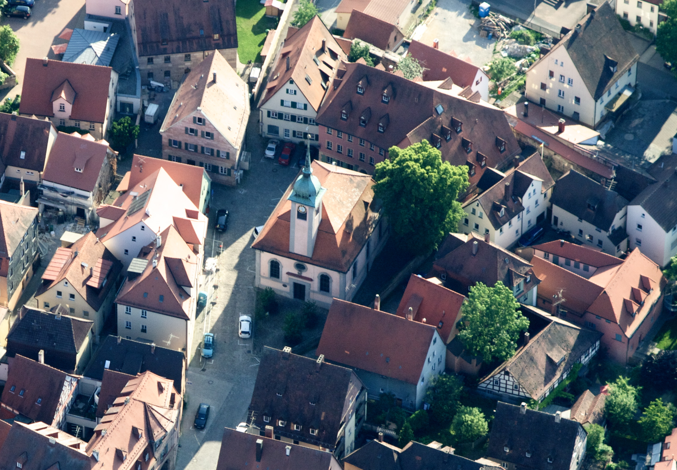 French Church, Schwabach